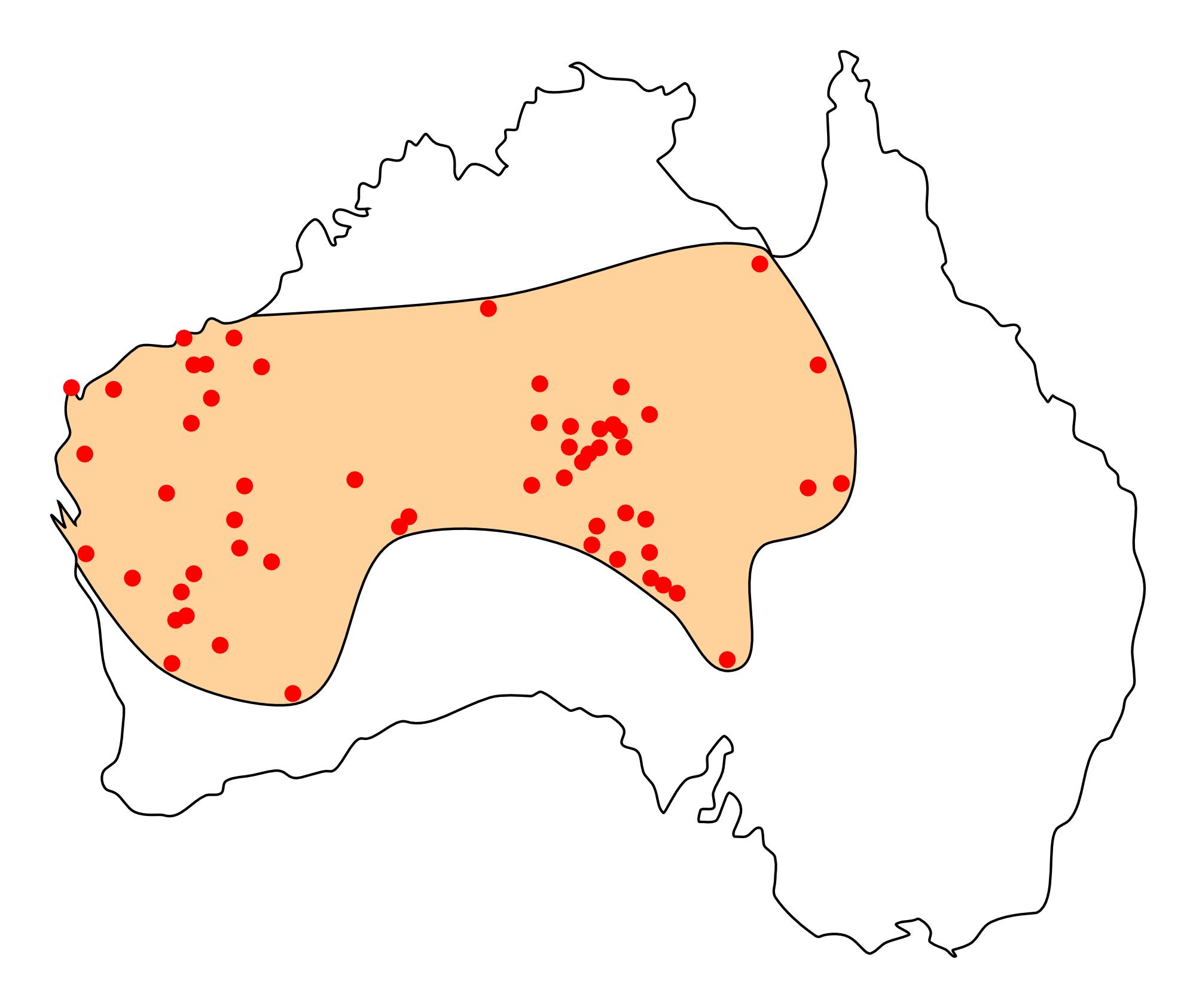 Distribution of the Perentie